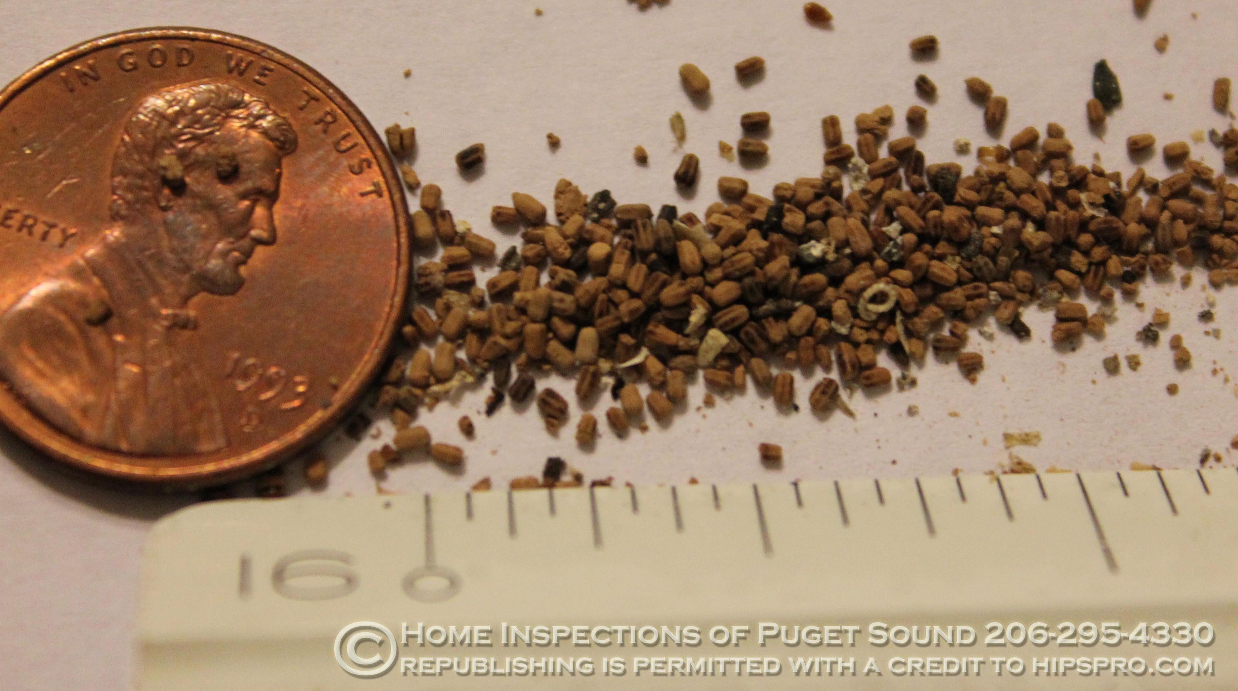 Pacific damp wood termite fecal pellets to scale